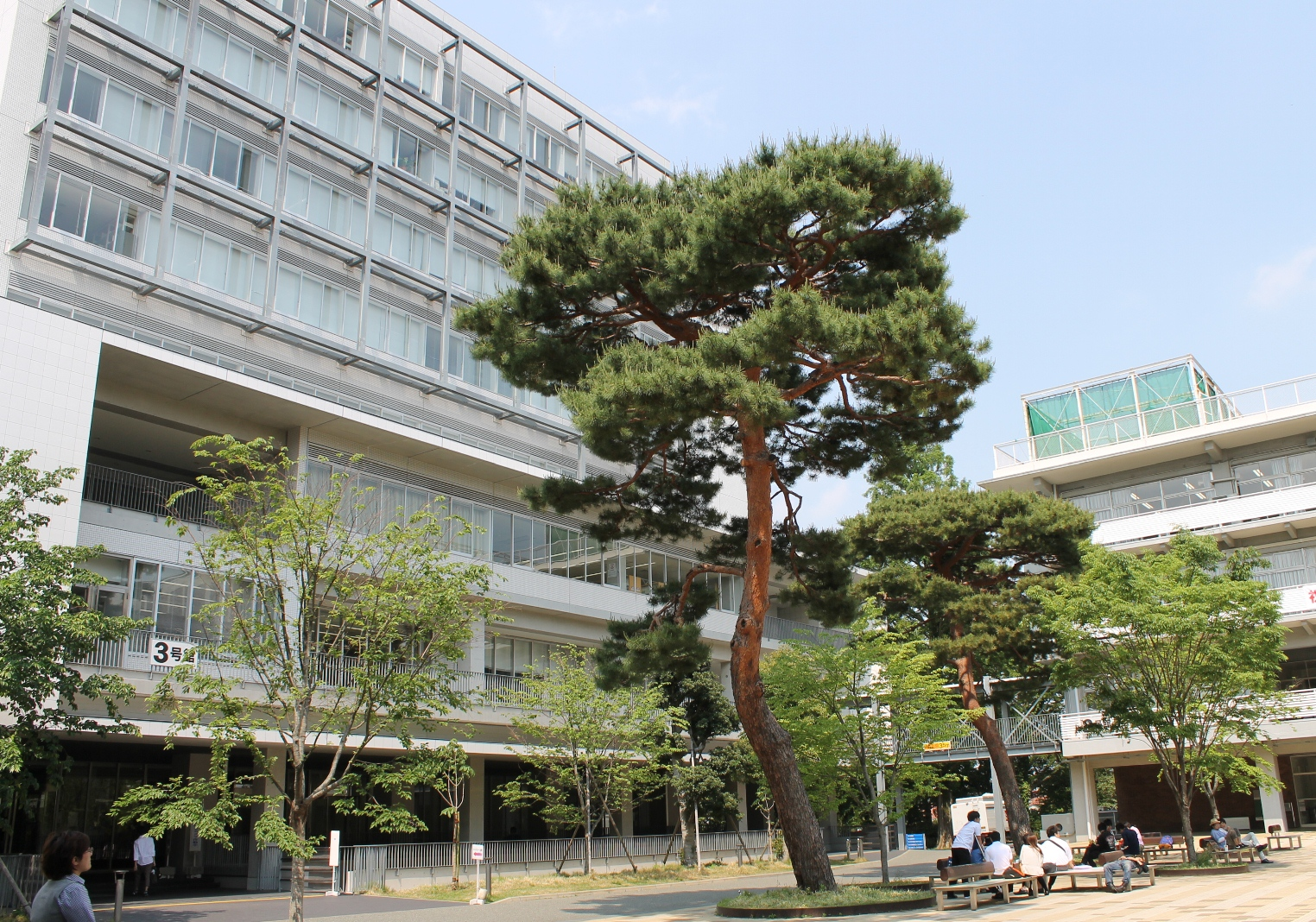 Seijo University Building #3, viewed from the courtyard